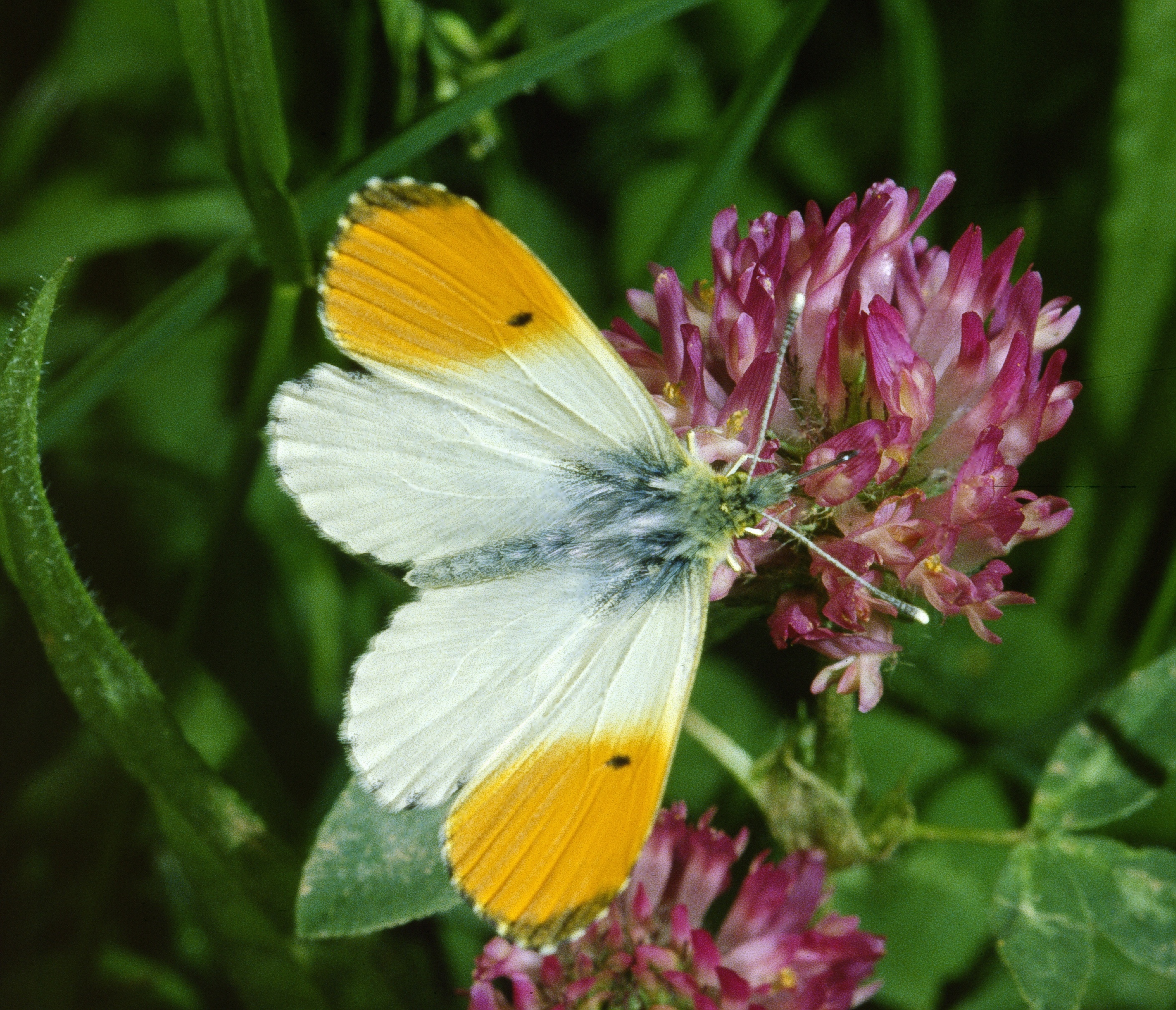 Anthocharis cardamines mâle